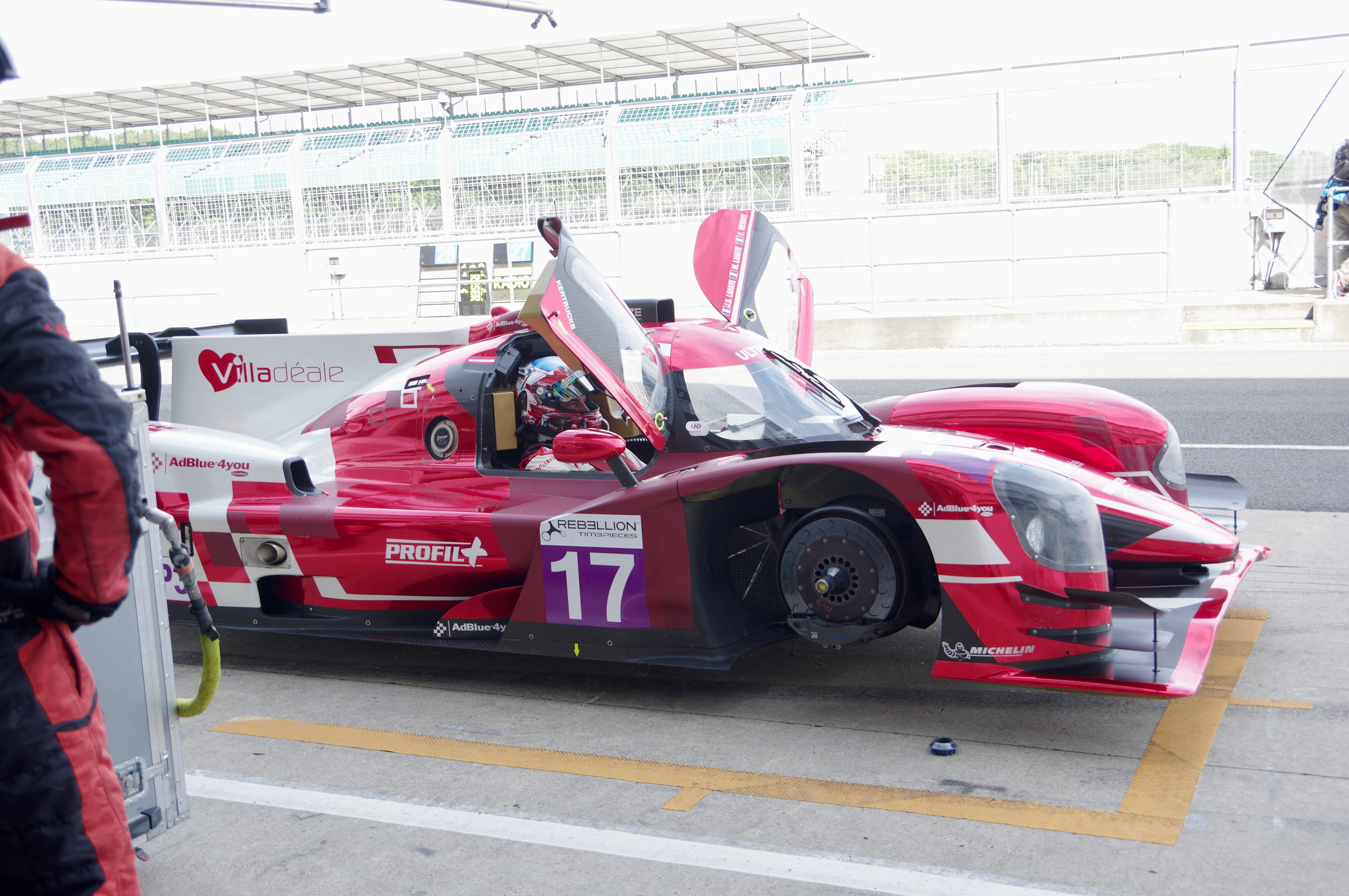 Ultimate Racing's Norma M30 Nissan Driven by François Heriau, Matthieu Lahaye and Jean Baptiste Lahaye